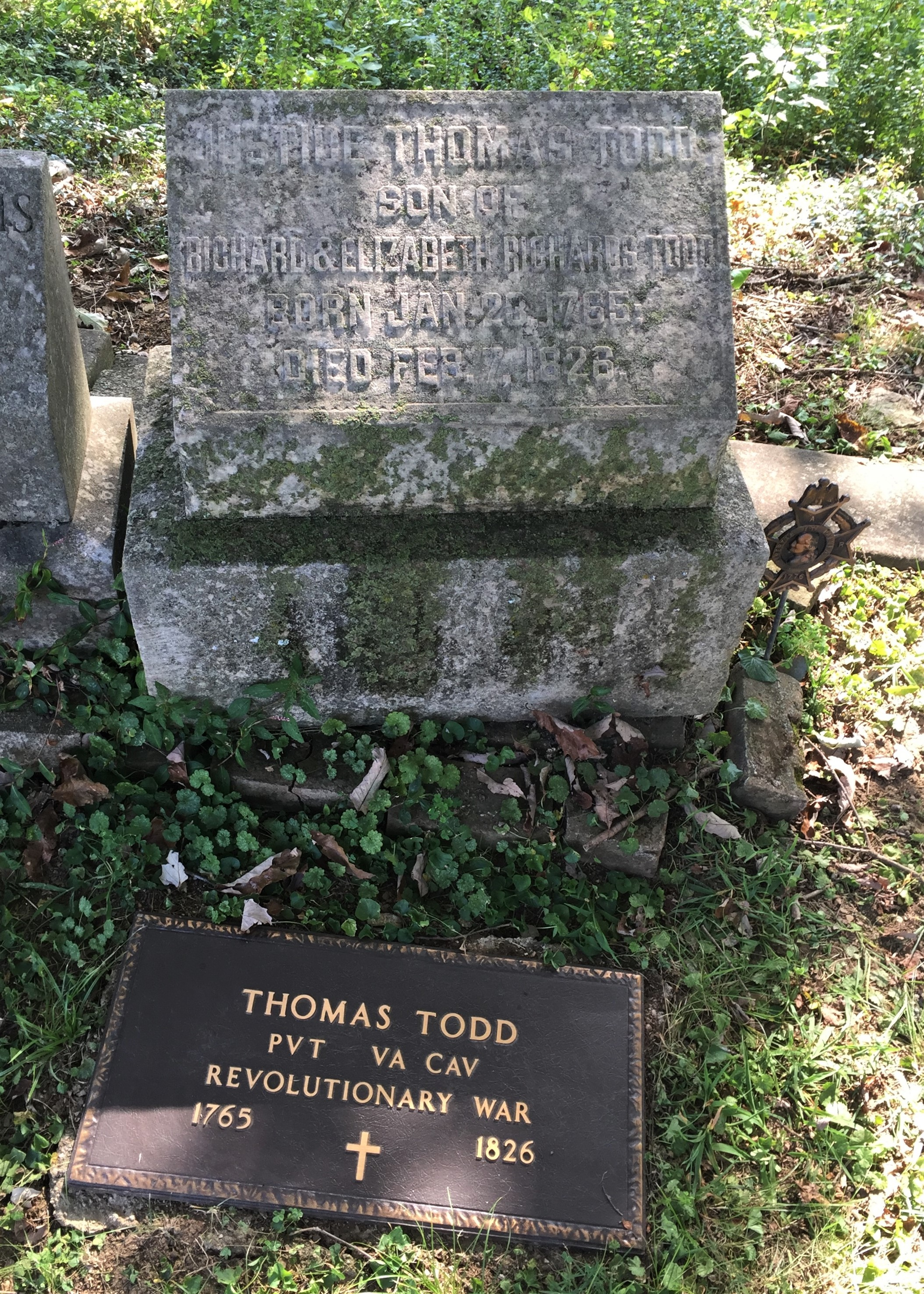 Grave of Associate Justice of the United States Supreme Court Thomas Todd (1765–1826), Section N Lot 196, Frankfort Cemetery Frankfort, Kentucky.